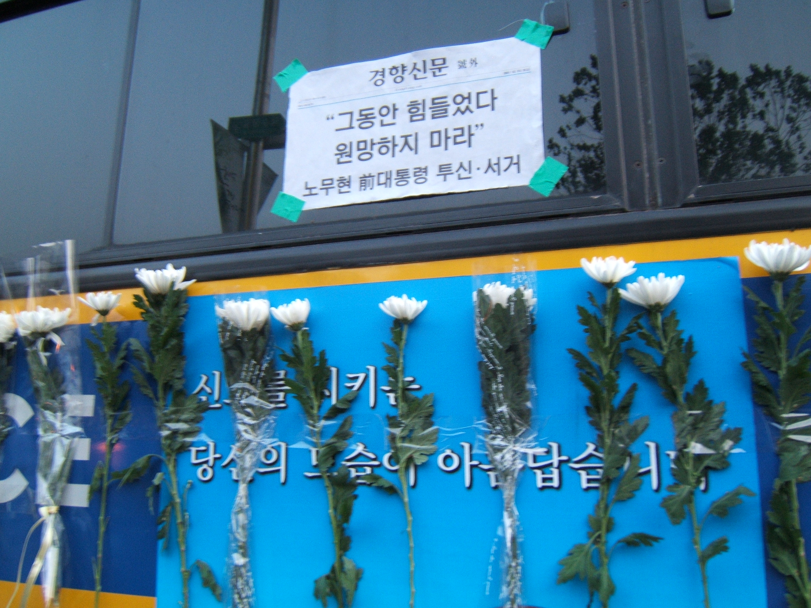 Chryanthemum flowers and a piece of newspaper about the death of former President of Korea Roh Moo-hyun are stuck on a police bus blocking the street.